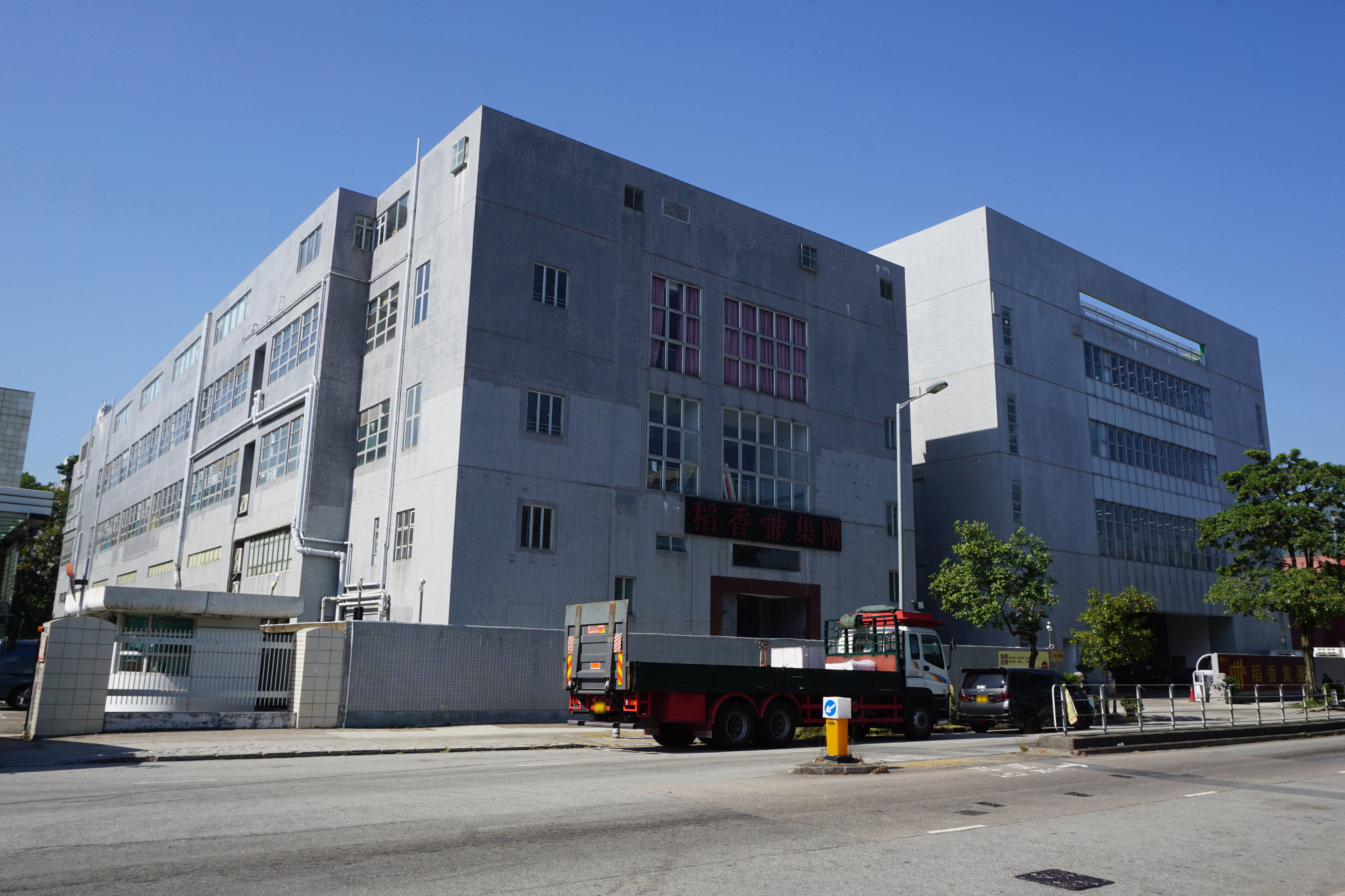 Tao Heung Centralized Food Processing and Logistics Centre in Tai Po, Hong Kong.